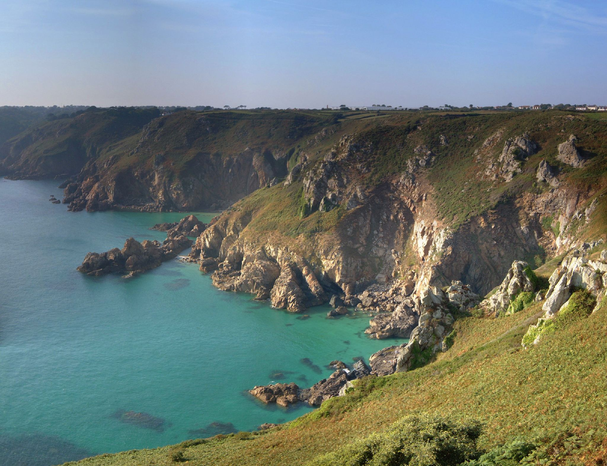 Guernsey cliffs view.